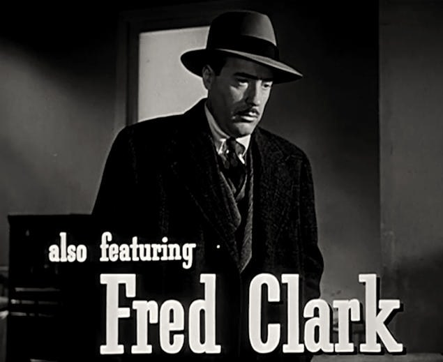 Fred Clark in Cry of the City - trailer (cropped screenshot)